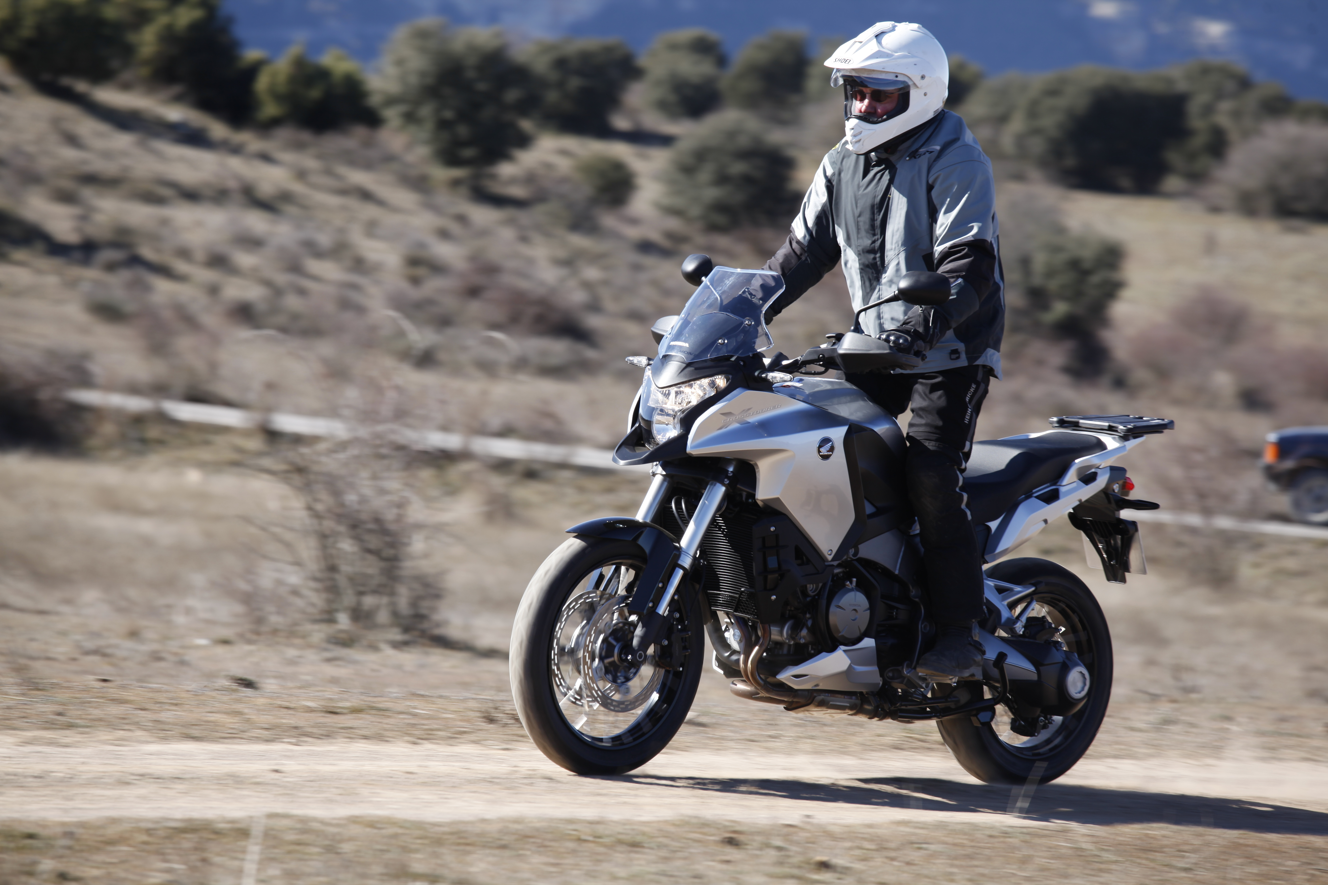 Honda CrossTourer YM12_01738